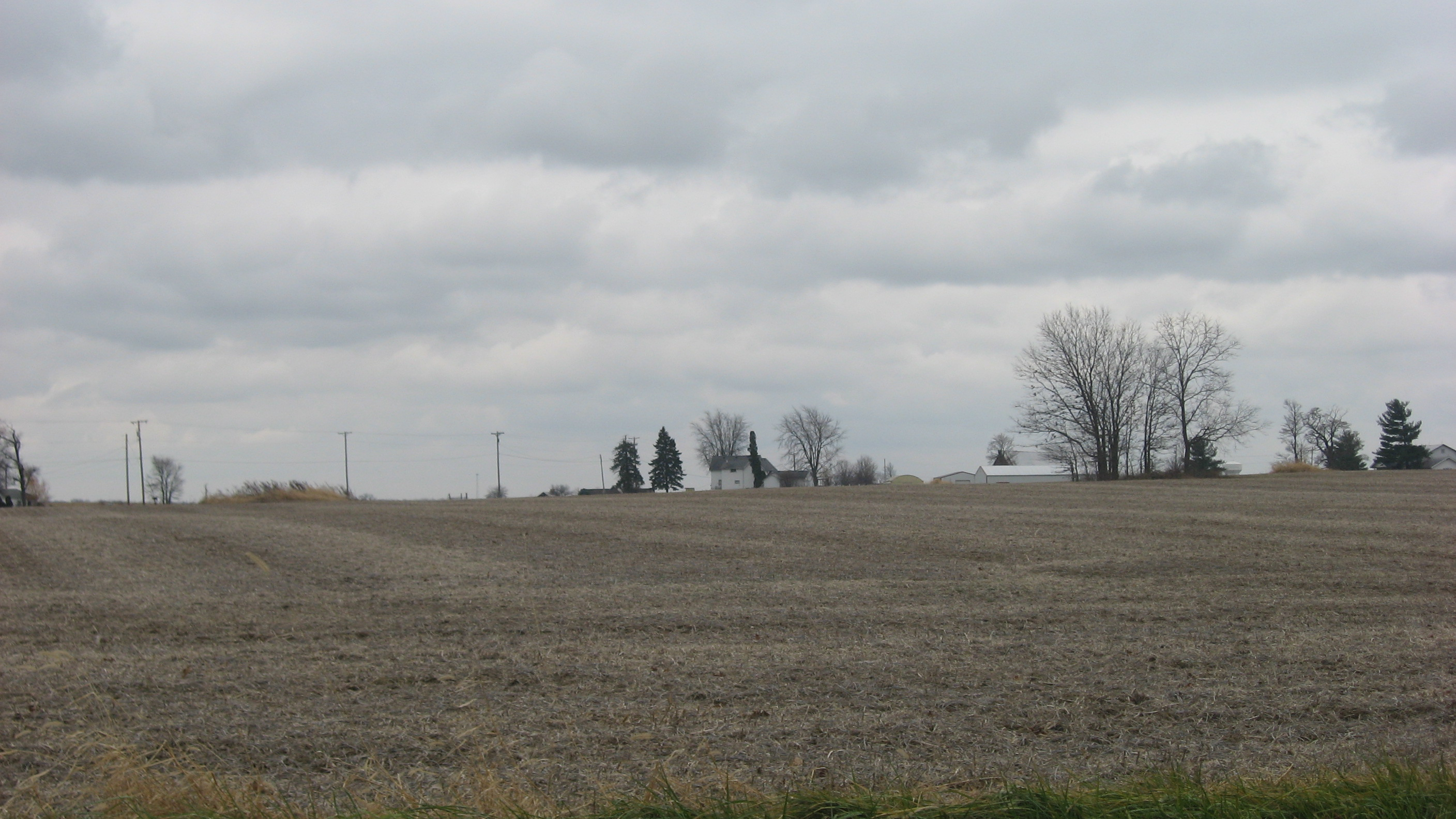 Overview from the north of the Ellis Mounds, located in the triangle bounded by Hillview Road, Wolford-Maskill Rd., and State Route 4, northeast of Marysville in Paris Township, Union County, Ohio, United States. The mound group is a complex of earthworks built by Hopewellian peoples; as an important archaeological site, the mounds are listed on the National Register of Historic Places.